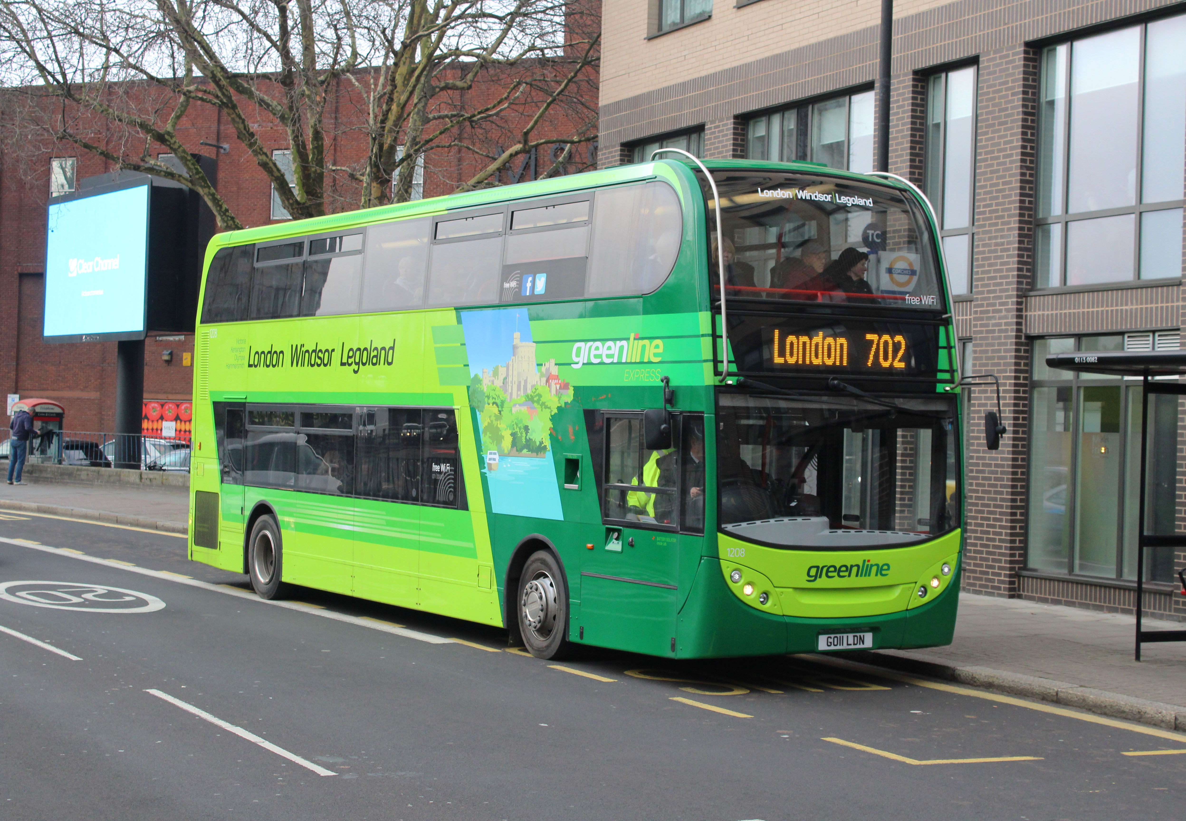 Reading Buses Greenline 702 GO11 LDN 1208, Hammersmith Bridge Road 13.1.18